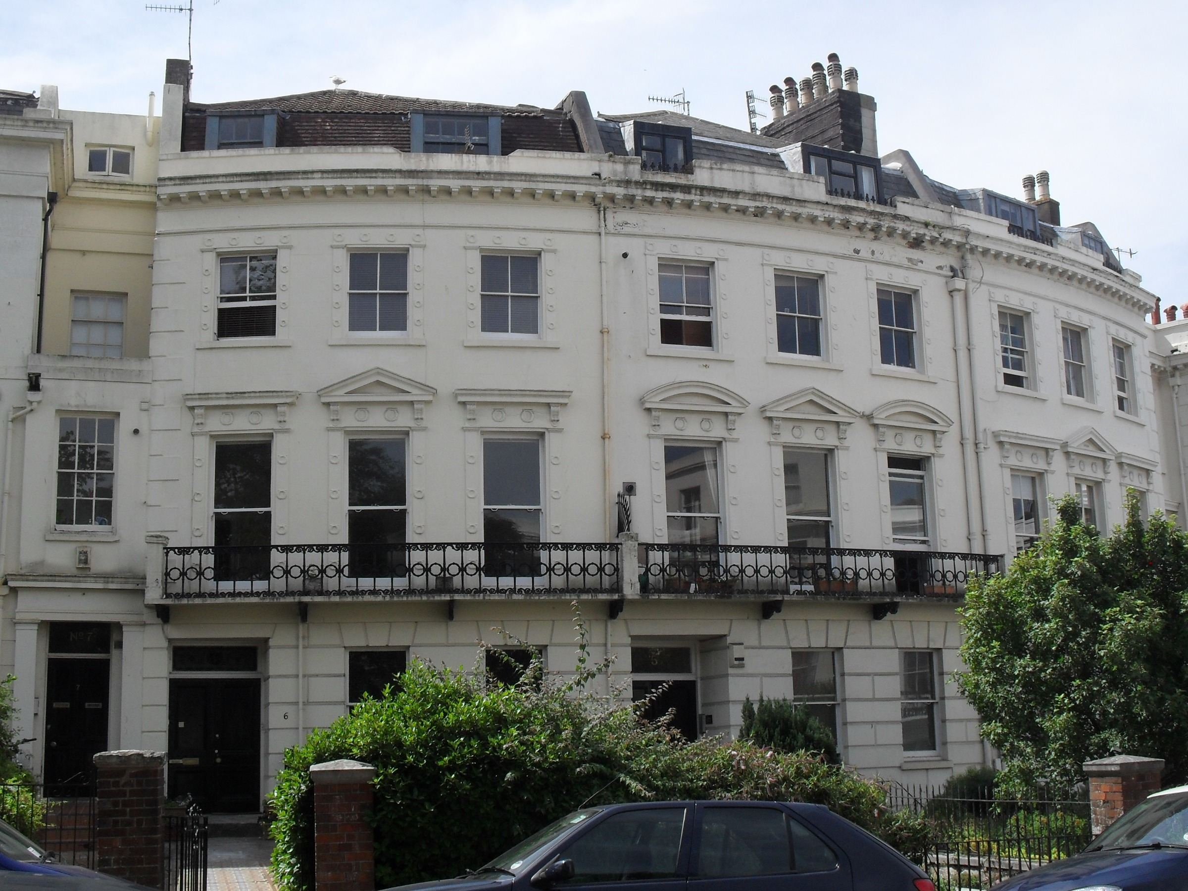 4–6 Montpelier Crescent, Brighton, City of Brighton and Hove, England. Listed at Grade II by English Heritage (NHLE Code 1380361)